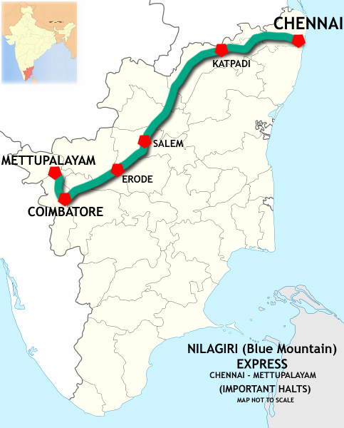 Nilagiri (Blue Mountain) Express Route map